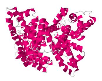 Protein structure of HSA